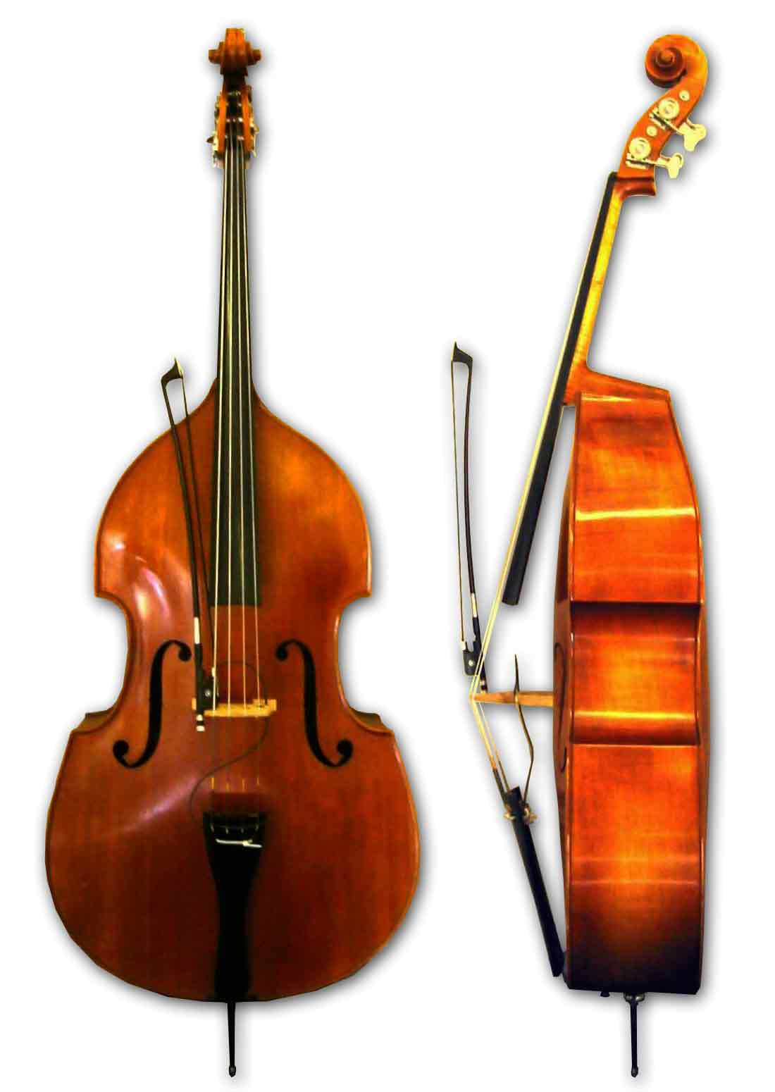 Photo of my double bass, front and side. It has a piezo pickup, as I use it mostly in a jazz band nowadays. Photos were taken by me on Dec 17, 2003 on a digital camera, had their colour adjusted, and edited together. This is pretty Q+D - lighting wasn't great and I turned the flash off to stop the bass looking like a toffee-apple. AndrewKepert 07:13, 17 Dec 2003 (UTC)